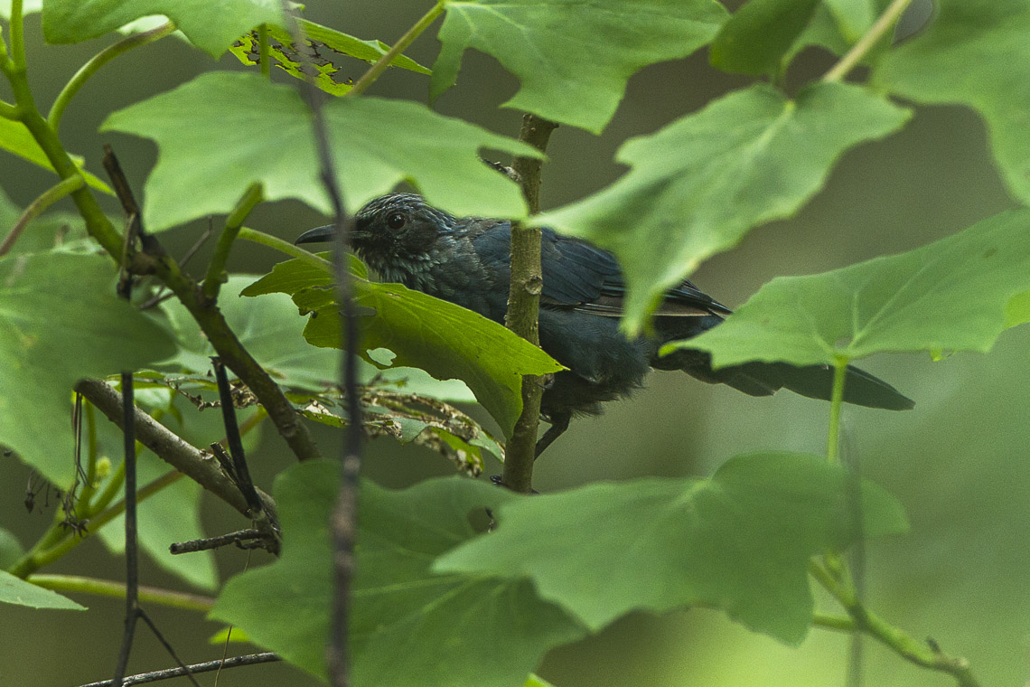 Blue Mockingbird - Sinaloa - Mexico_S4E1106